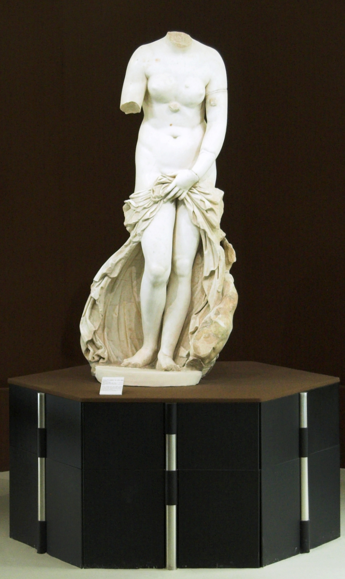 Aphrodite aca Venus Pudica, aca Venus Landolina. Greek islands marble, 100-200 AD, after original 2ne century BC (probably Rhodian). Archaeological Museum of Syracuse, inv. 694.